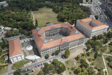 Ludovika Square, Józsefváros, Budapest, Hungary, aerial photography